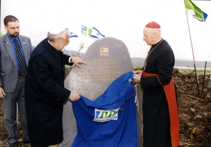 John Paul Forest, Geography of Israel